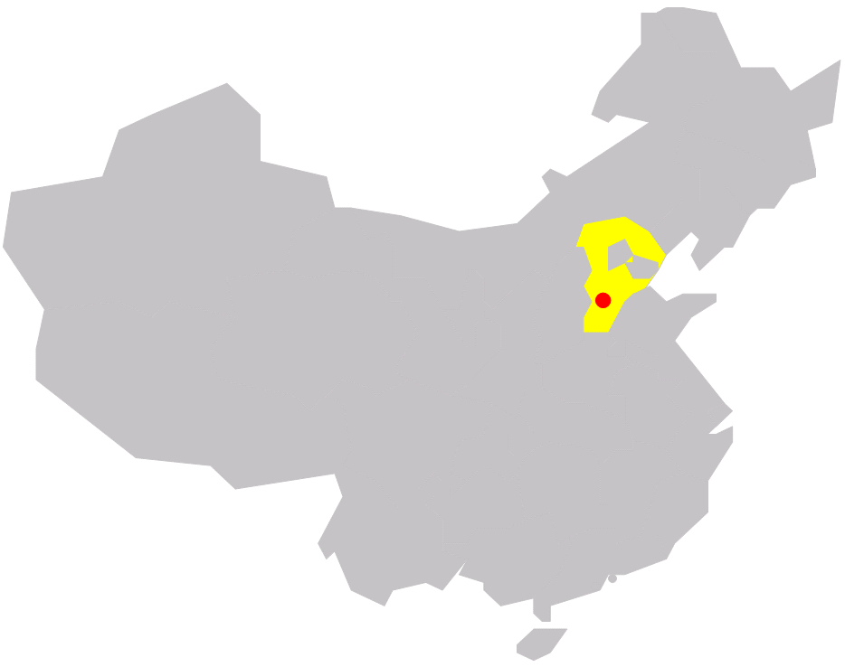 Description: position of Shijiazhuang in China Source: own work Date: December 2005 Author: --Immanuel Giel 12:31, 15 December 2005 (UTC) Other versions: none